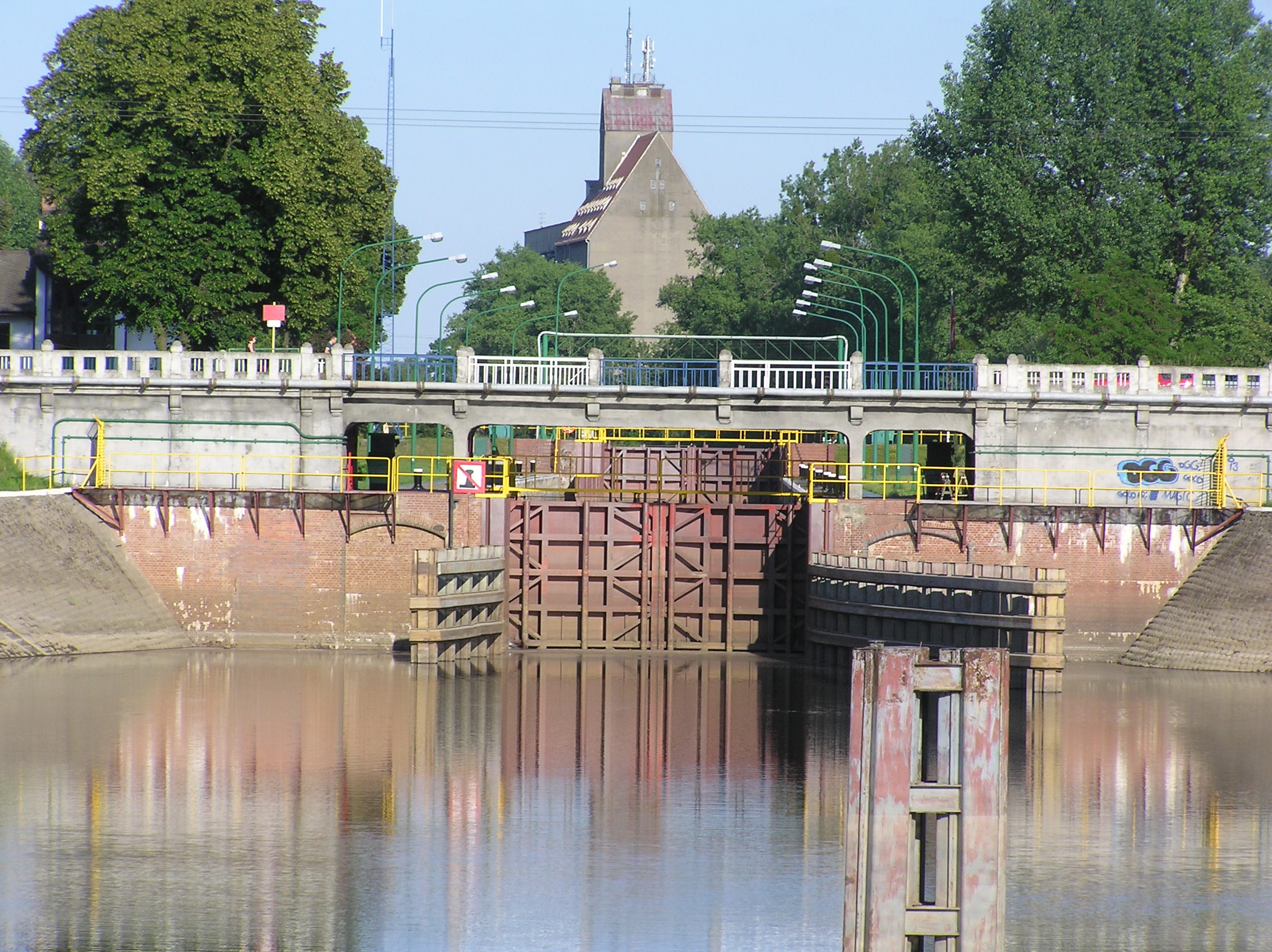 Oława II Lock